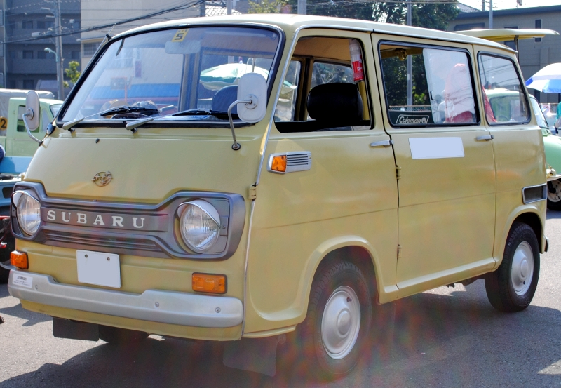 1972 Subaru Sambar.